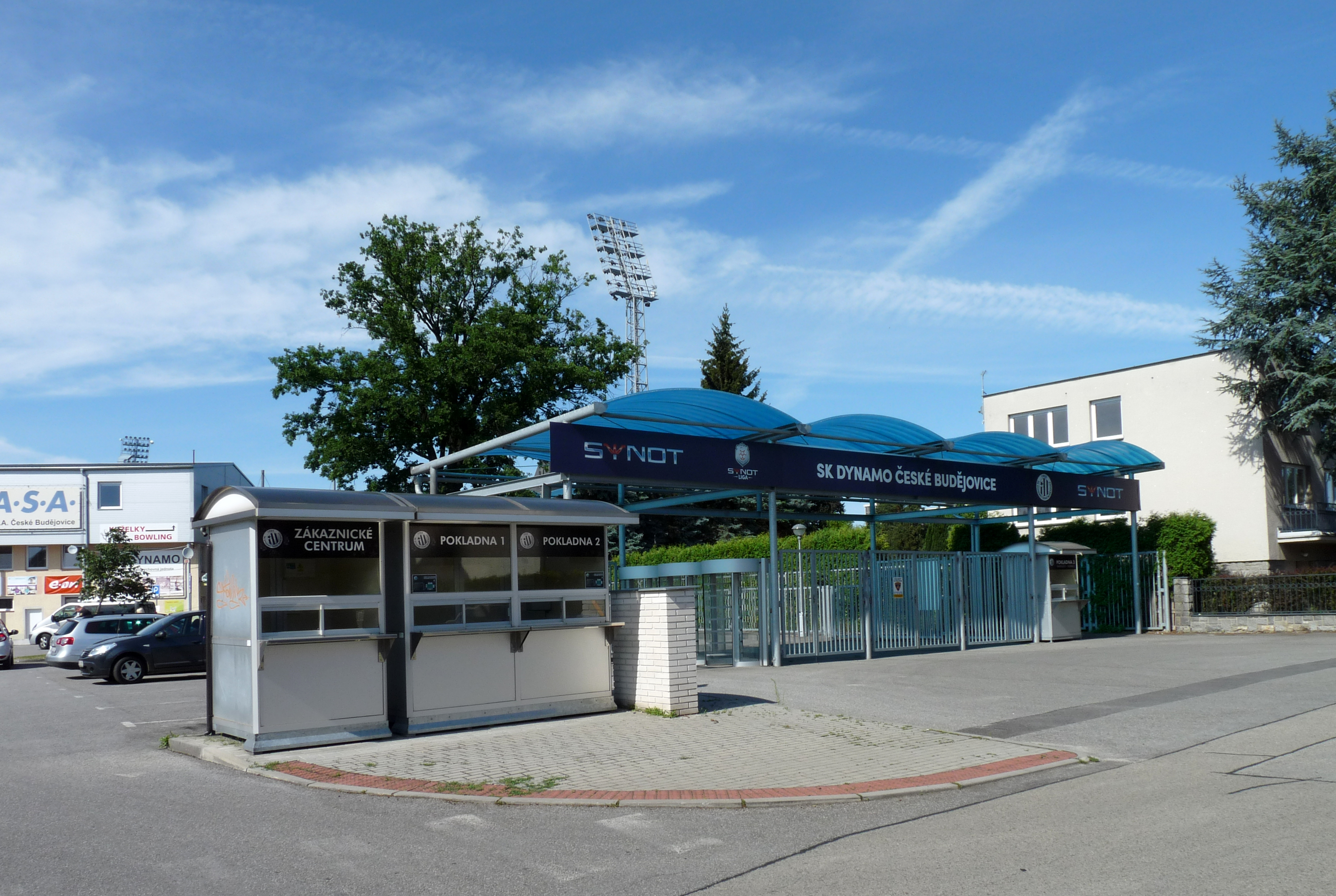 Football stadium of SK Dynamo České Budějovice, a football club in České Budějovice, South Bohemian Region, Czech Republic.